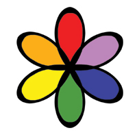 A color wheel which denotes complimentary colors. When Red wavelengths are absorbed, green light is observed, for example.